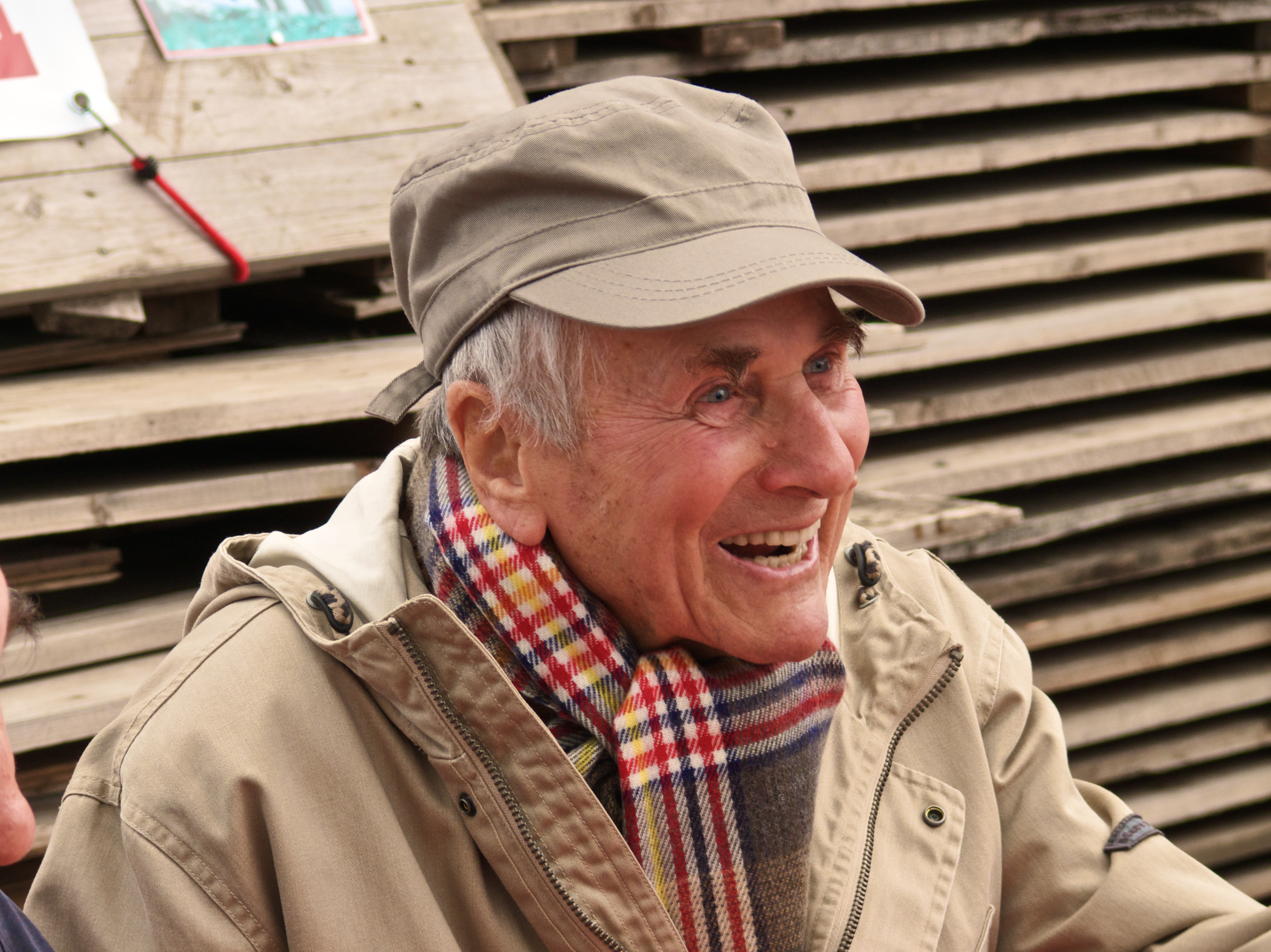 The director/writer Rudi Kurz, September 2008